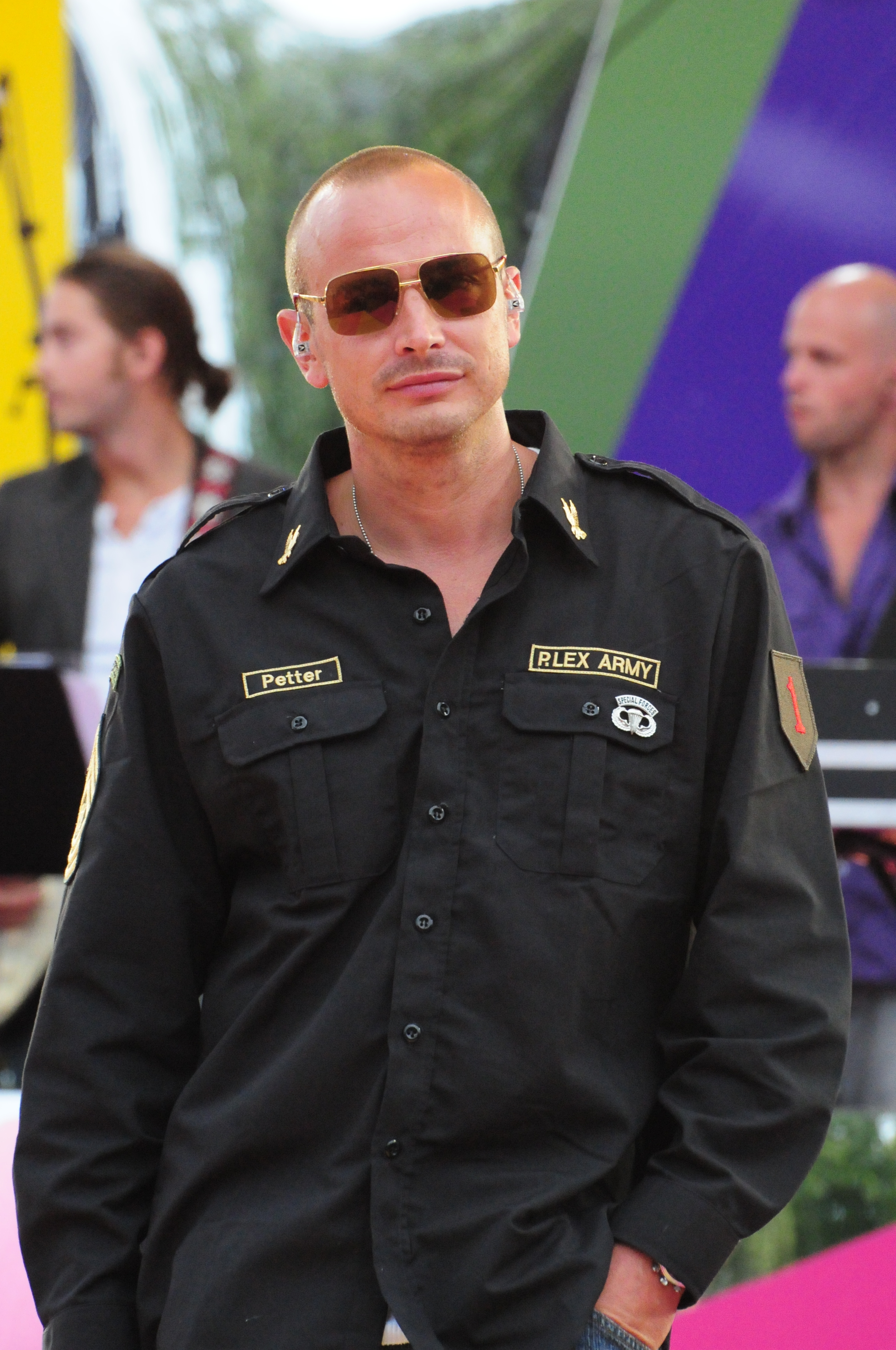 Petter at Sommarkrysset